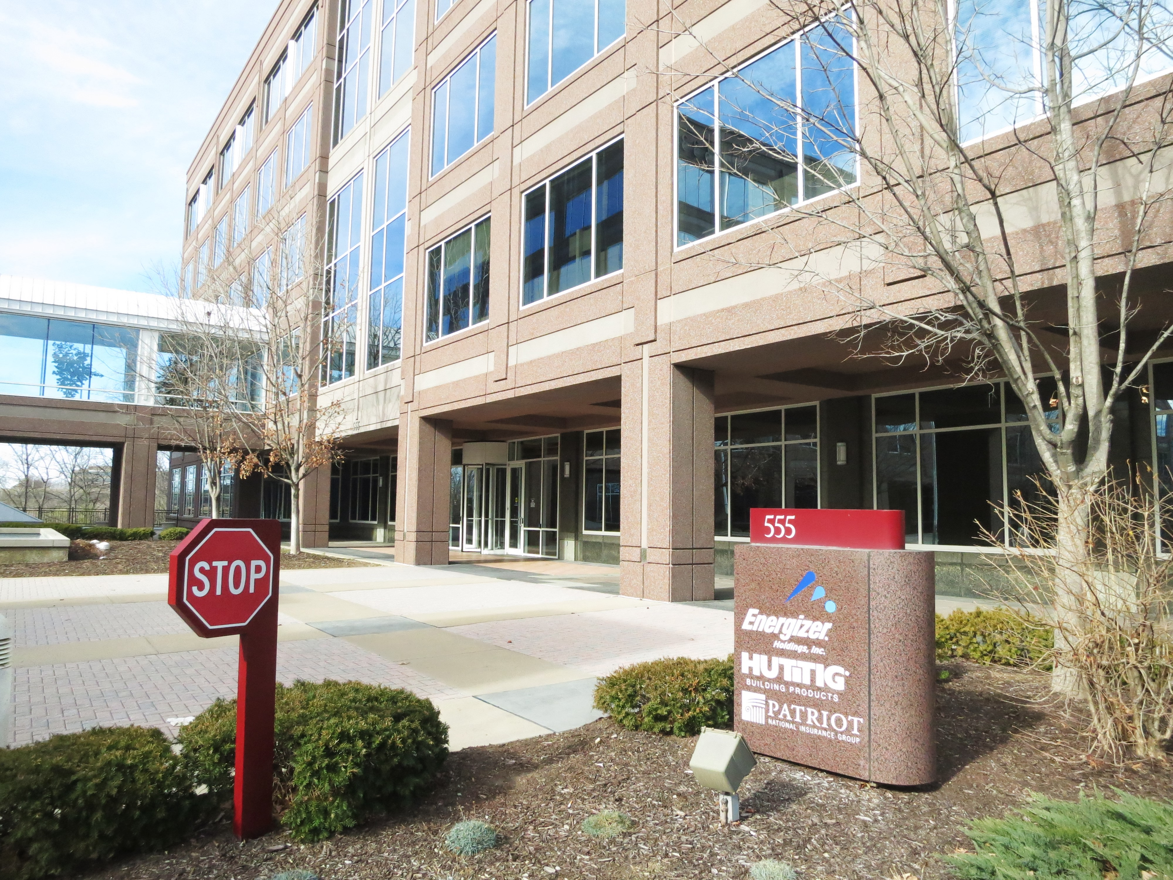 Energizer Holdings headquarters in Town and Country, MO.